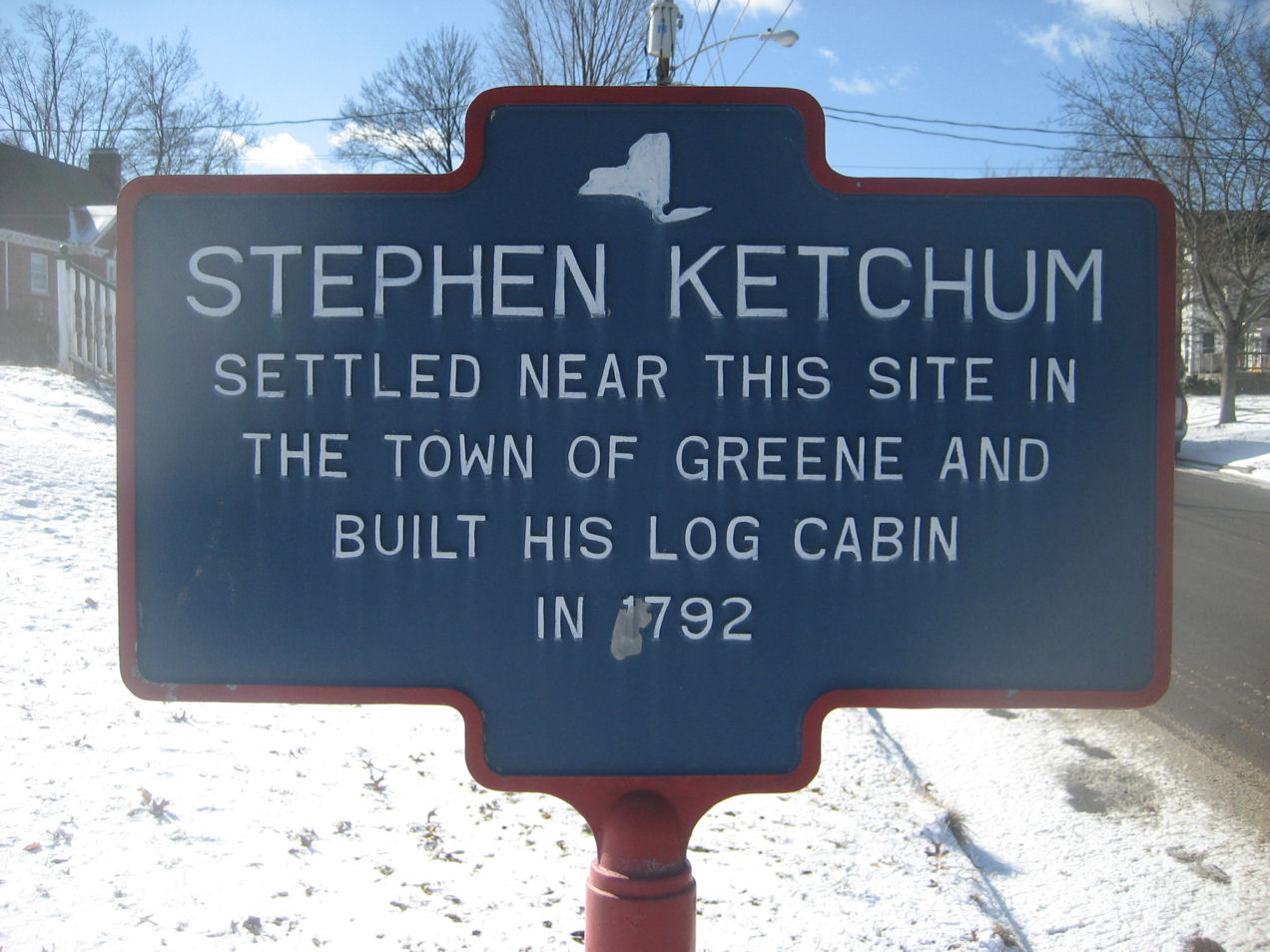 Historic marker near the site of Stephen Ketchum's log cabin, built, 1792 in Greene, NY.